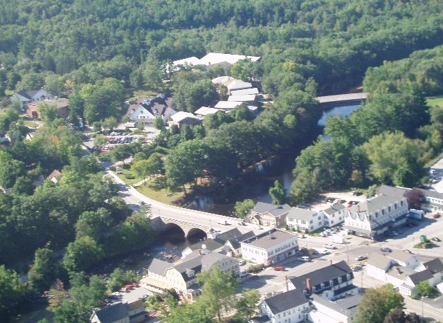 View of New England College. For more, visit